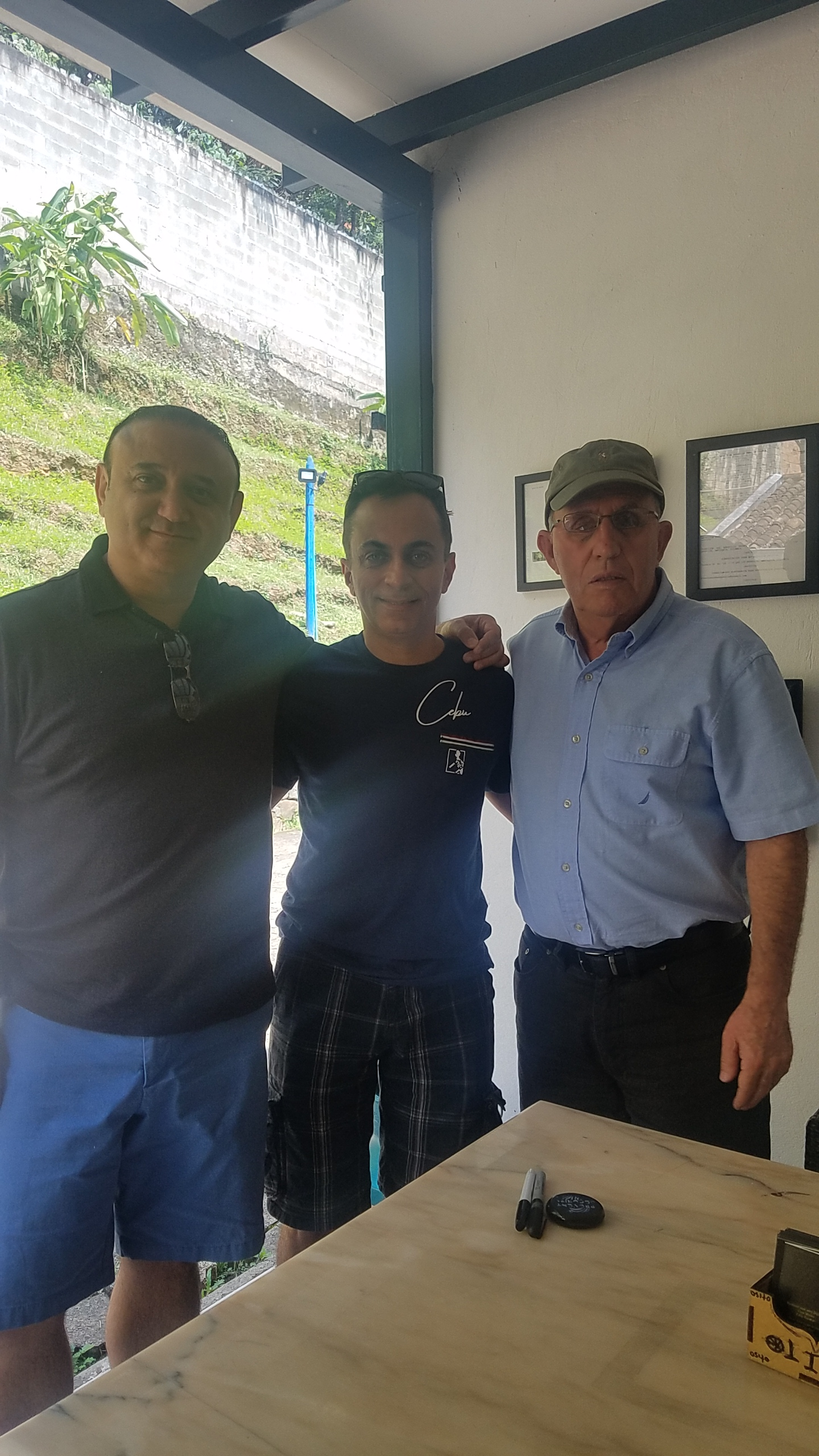 Roberto Escobar (right), Pablo Escobar's brother at the family compound turned museum in Medellin, Colombia